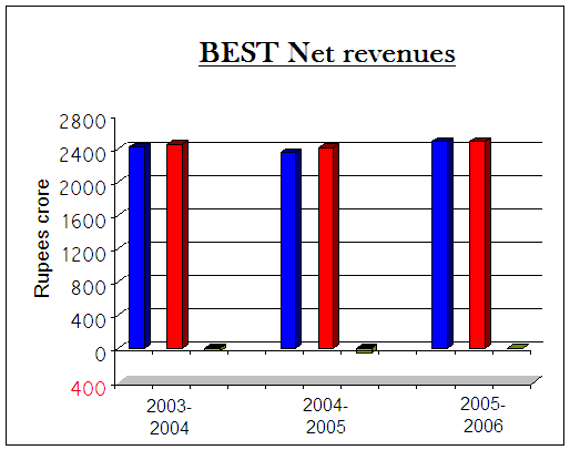 Nett revenues of the Brihanmumbai Electric Supply and Transport Blue: Income Red: Expenditure Green: Nett. Proft/Loss Source: Made by me, =Nichalp «Talk»= 11:02, August 26, 2005 (UTC)